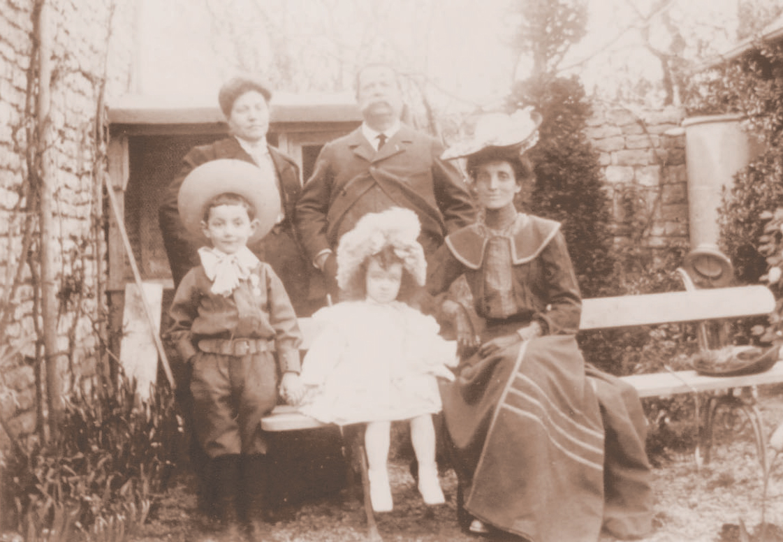 Léonce Perret's family photo.